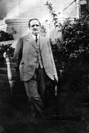 Prince Xhelal Zogu of the Albanians, elder brother of King Zog I of the Albanians